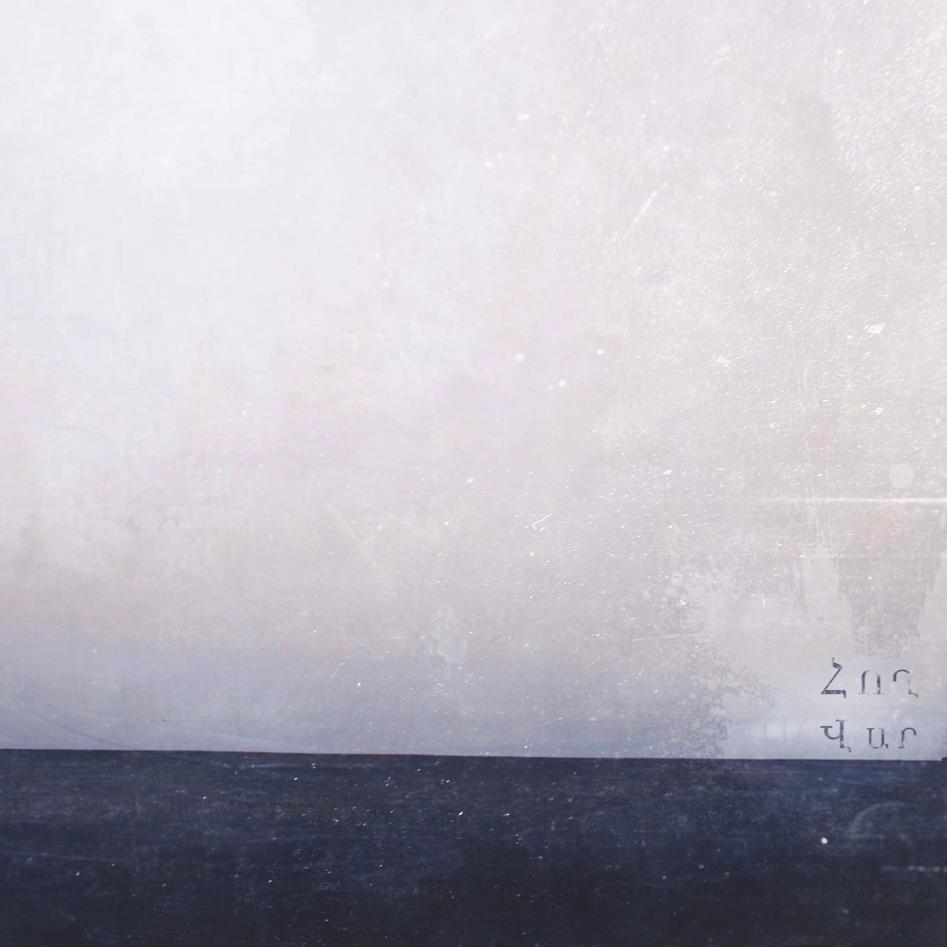 Հող- Վար